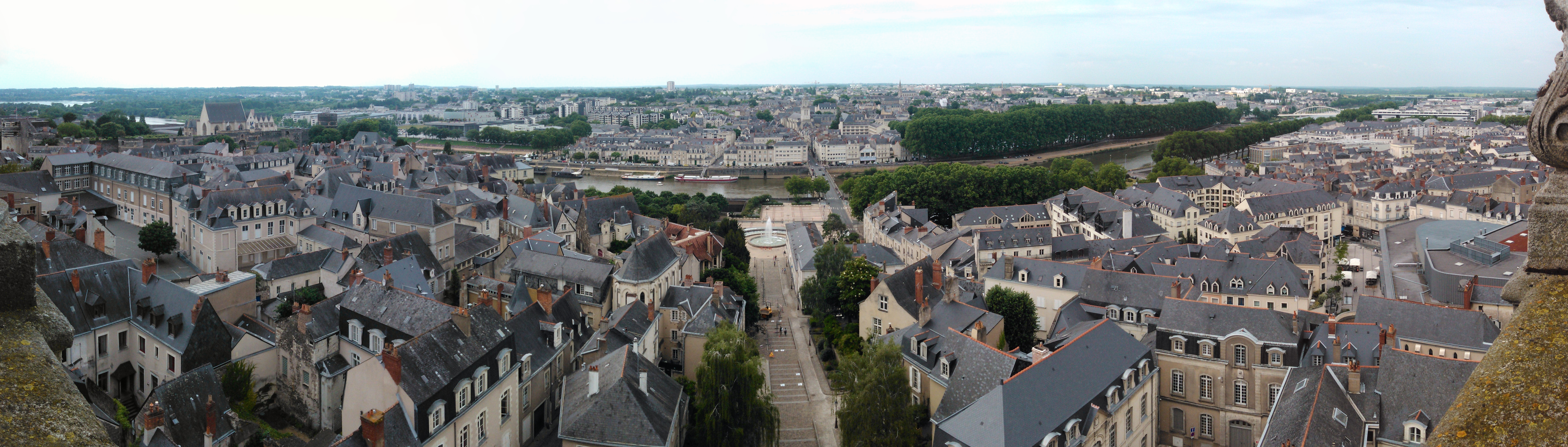 View to north-west from south tower of Angers Cathedral. Cylindrical projection.